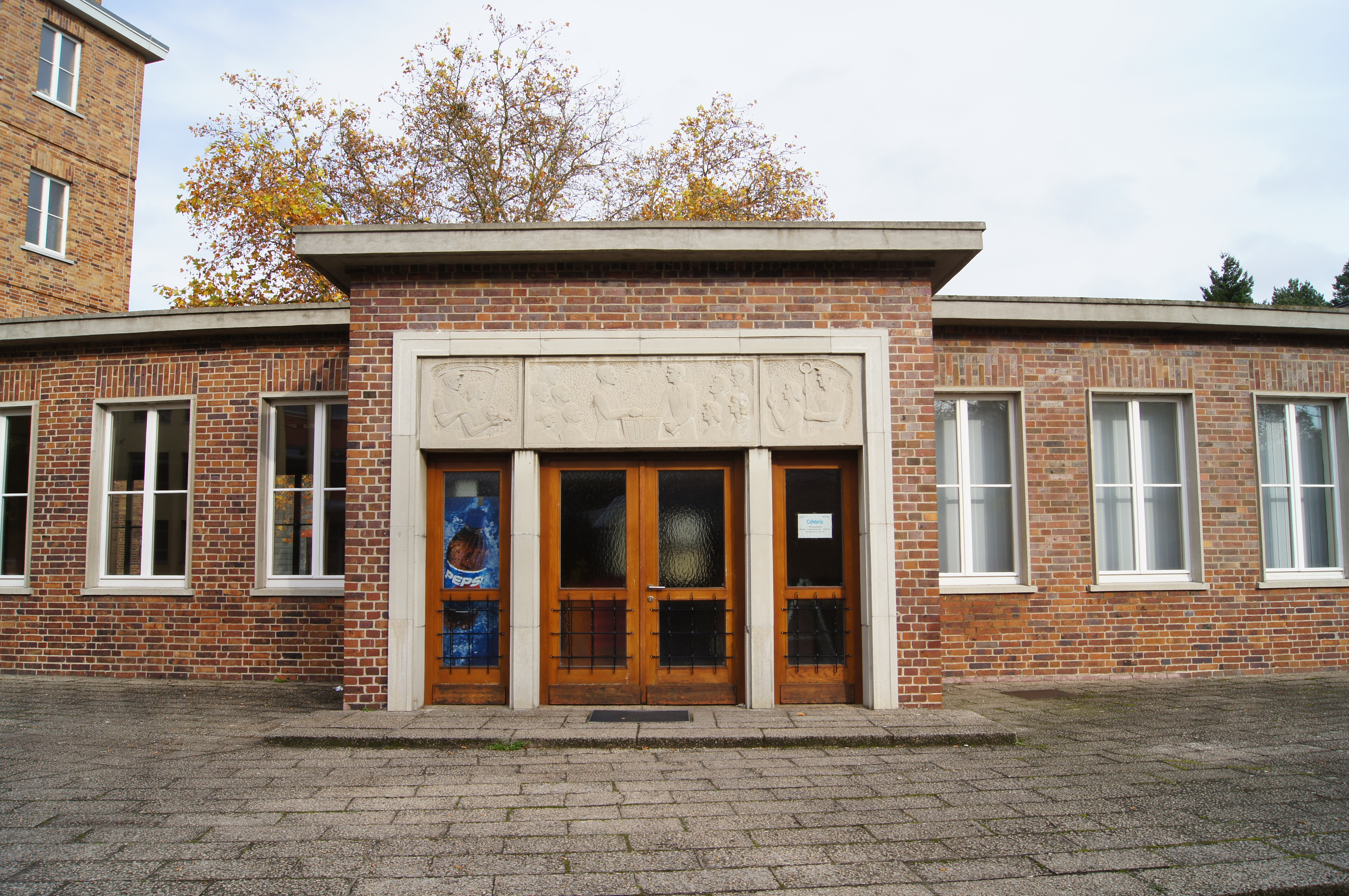 ADGB School Bernau, Brandenburg, Germany